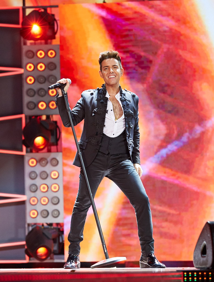 Juan-Ricondo-performing-in-2019